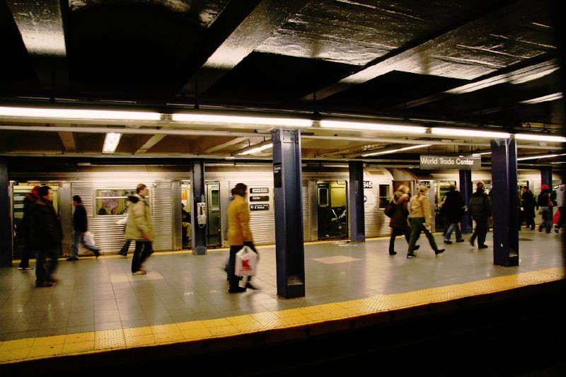 World Trade Center station at the IND Eighth Avenue Line. Since the 1990s, renovation took place all over the system providing new fluorescent lights and cleanliness. Trains are kept graffiti-free, floors have been tiled. However, low height and the resulting bad ventilation could not be removed.